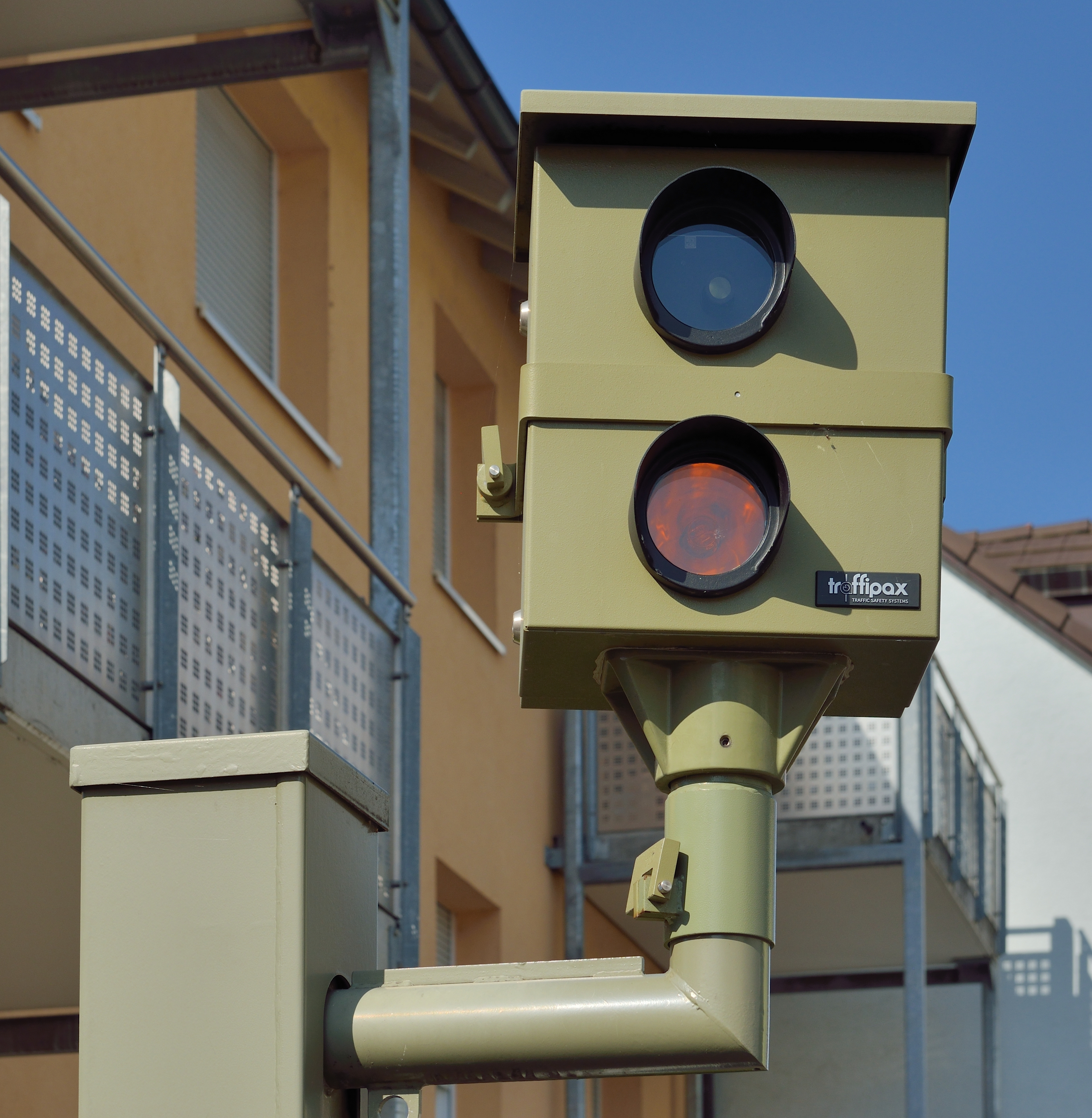 Lörrach: Traffic enforcement camera